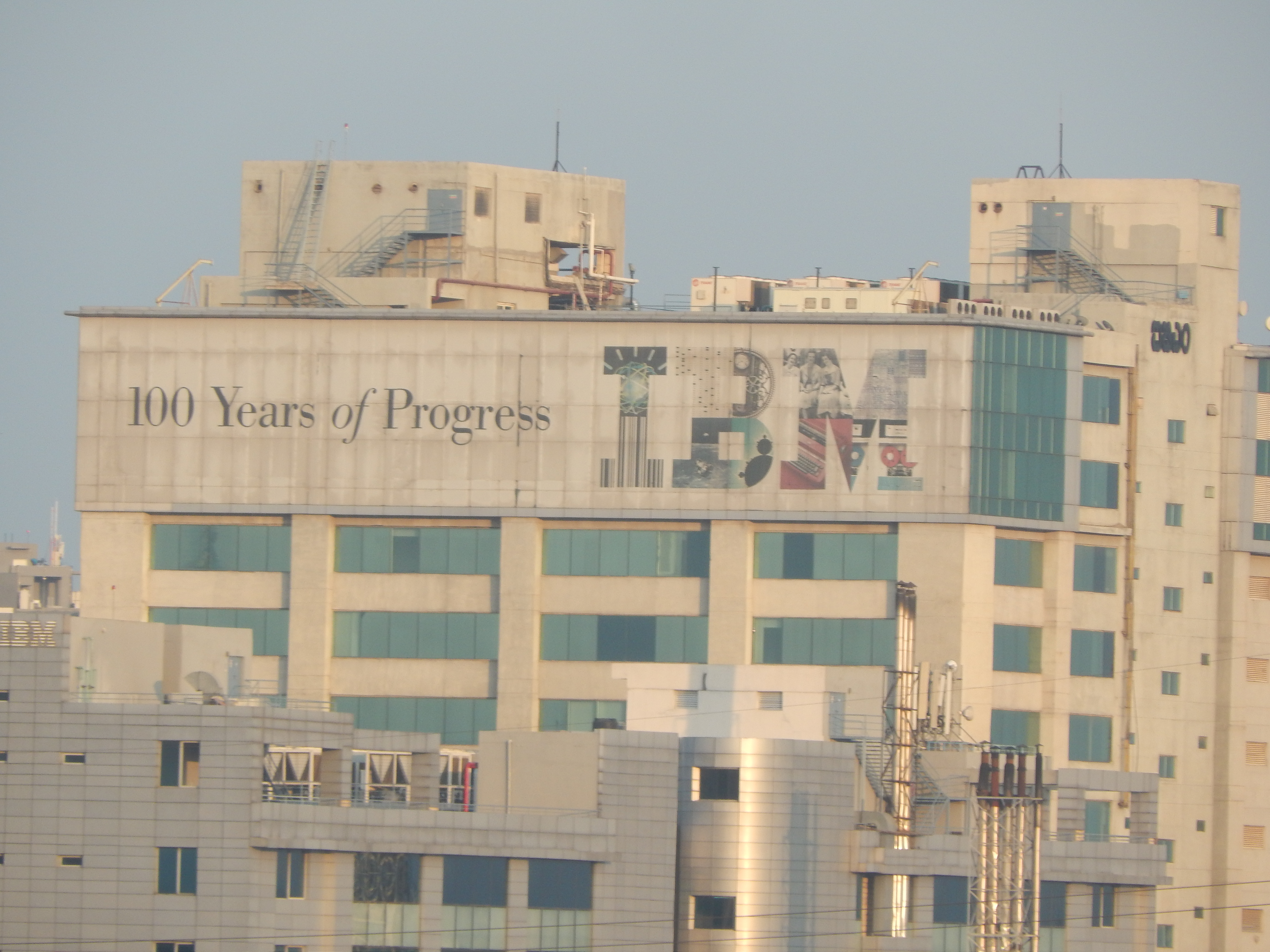 IBM head office Bangalore